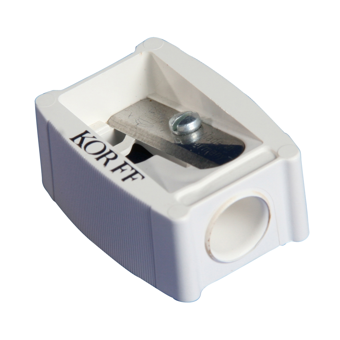 Sharpener_made_from_Cellulose_Acetate_Biograde